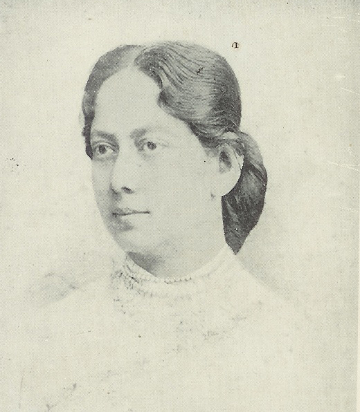 Pic from Bethune School and College Centenary Volume 1949. No copyright.